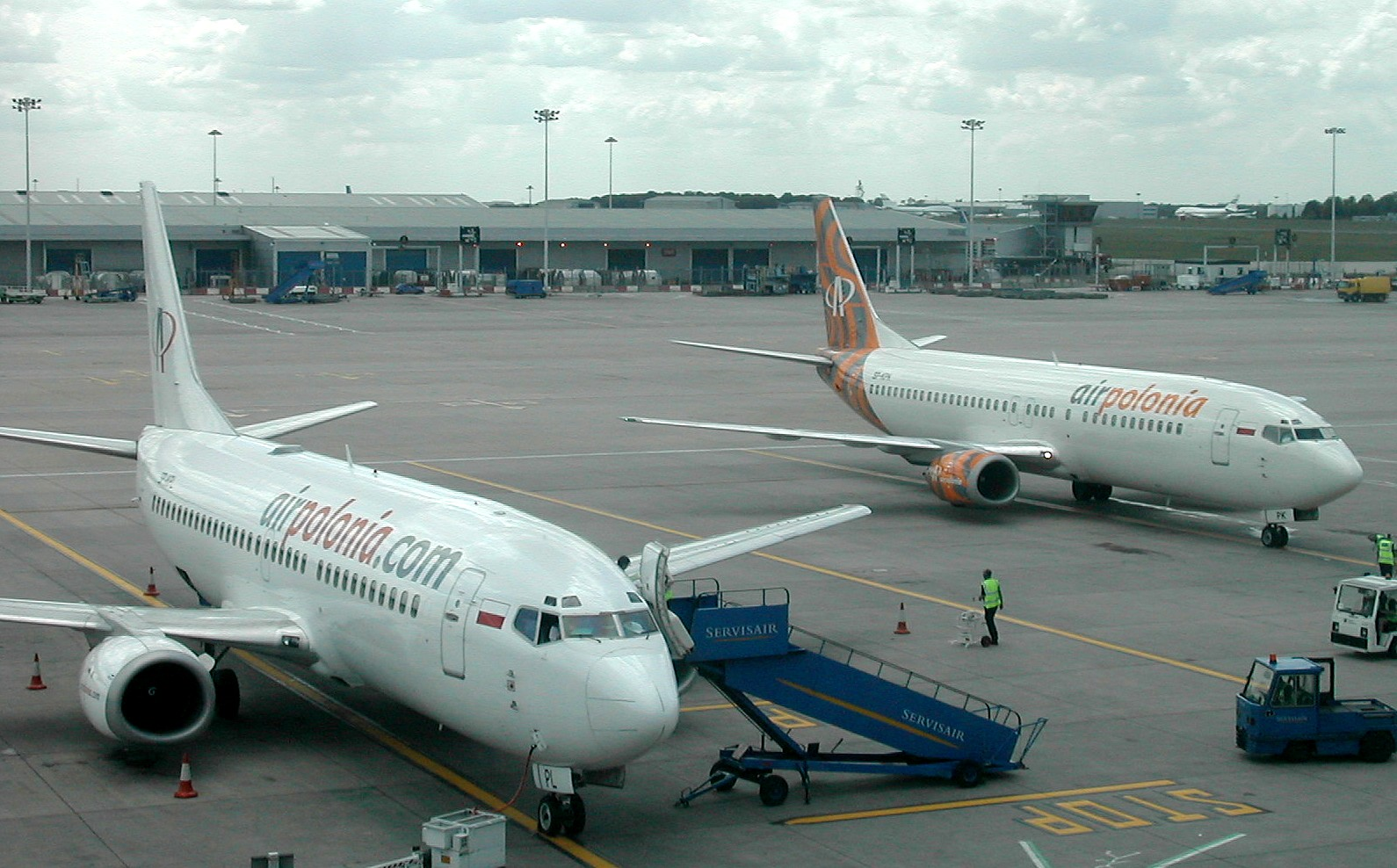 Air Polonia B737 at London Stansted (one flying to Katowice, the other one to Warsaw)